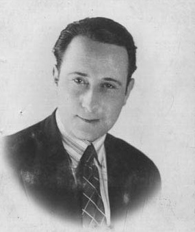 Alberto Bello Jr.- actor